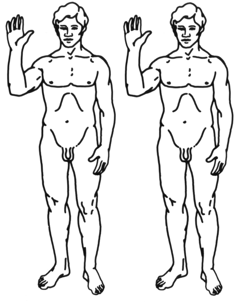 two identical men, modified version of Image:Human.png, original work of the NASA